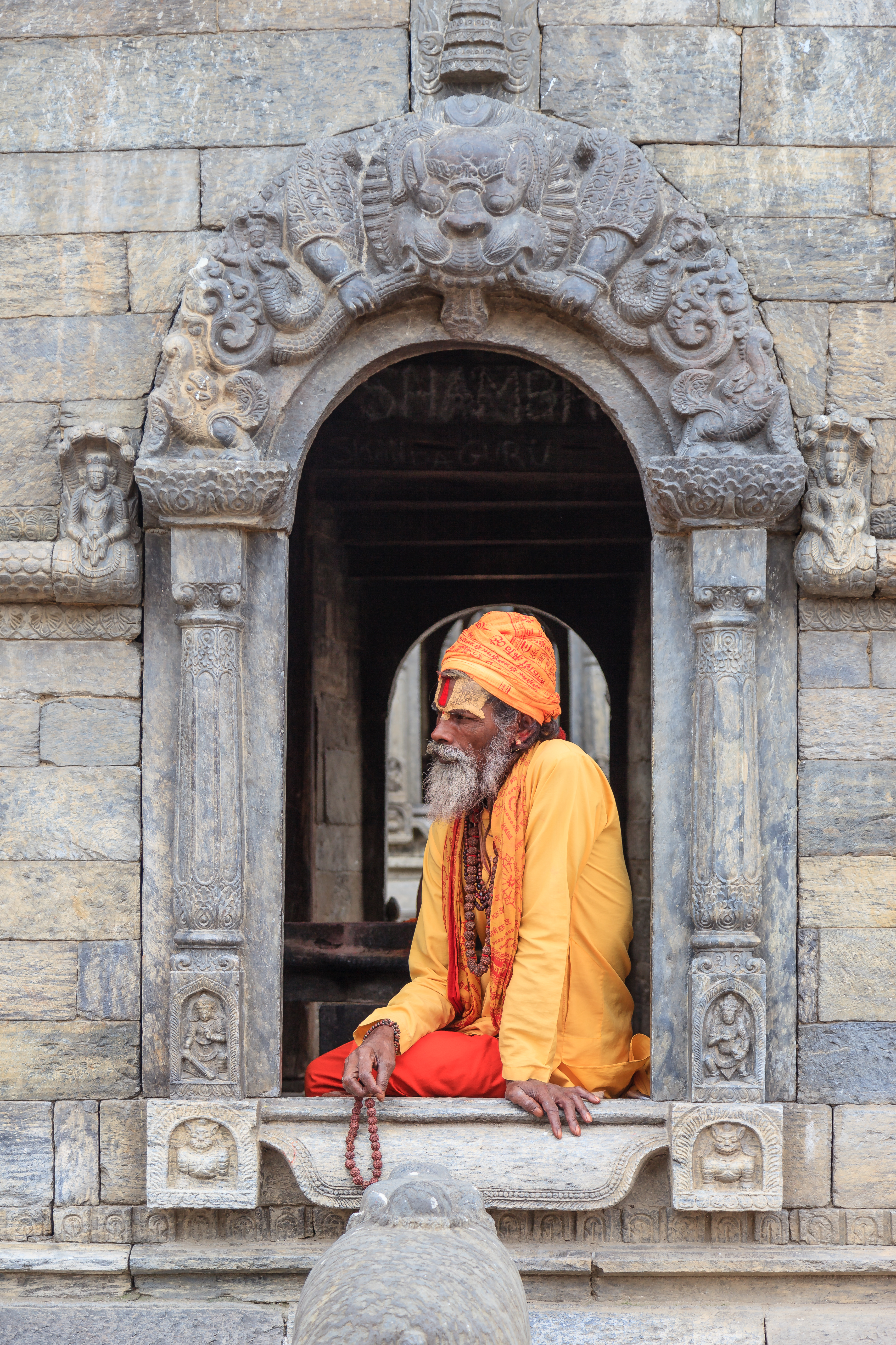 Shadhu sitting inside Pandra Shivalaya in Pasupatinath Temple